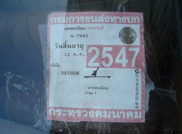 Tax-paid label for a car registered in Thailand, at windshield (current square version)